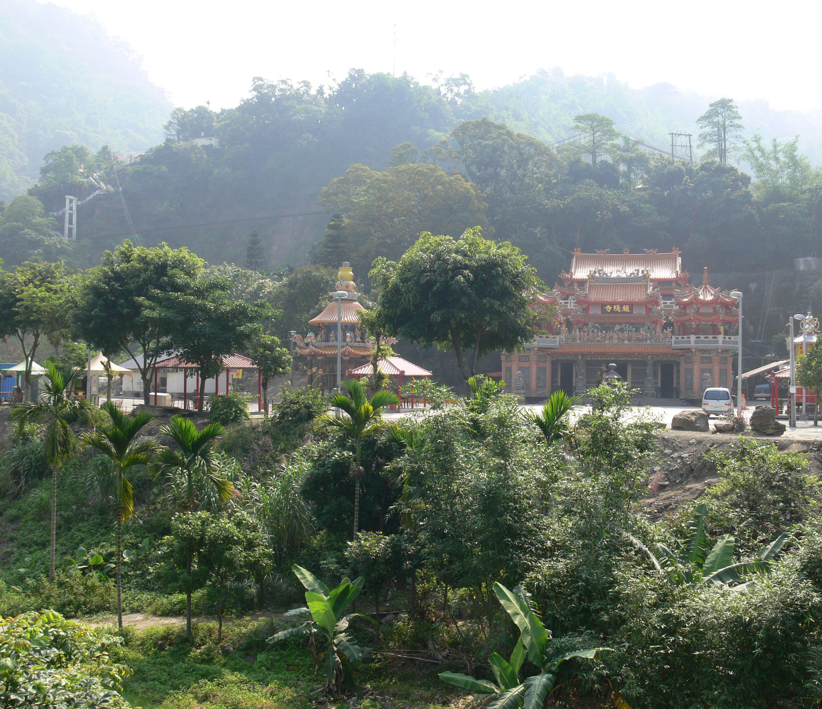 Long-Ying Temple is a temple dedicated to the deity Daoji, and located in Chiukou, Alishan National Scenic Area.